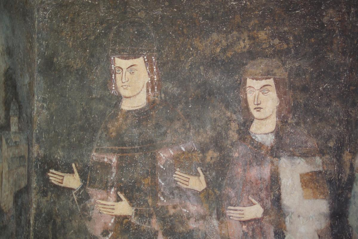 Fresco of young Dragutin and Milutin in Sopocani monastery, Serbia